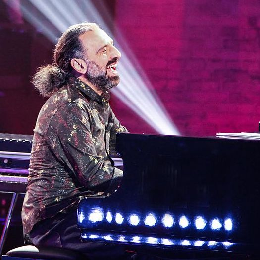 Stefano Bollani playing piano in the TV show ‘L'importante è avere un piano’ (2016)